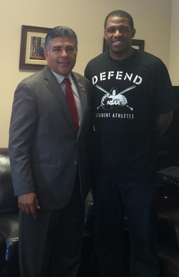 Photo accompanied Twitter post by Rep. Cardneas: "Met w Rashad McCants today 2 learn more about NCAA education issues related 2 @oversightdems & my letter 2 the @NCAA"